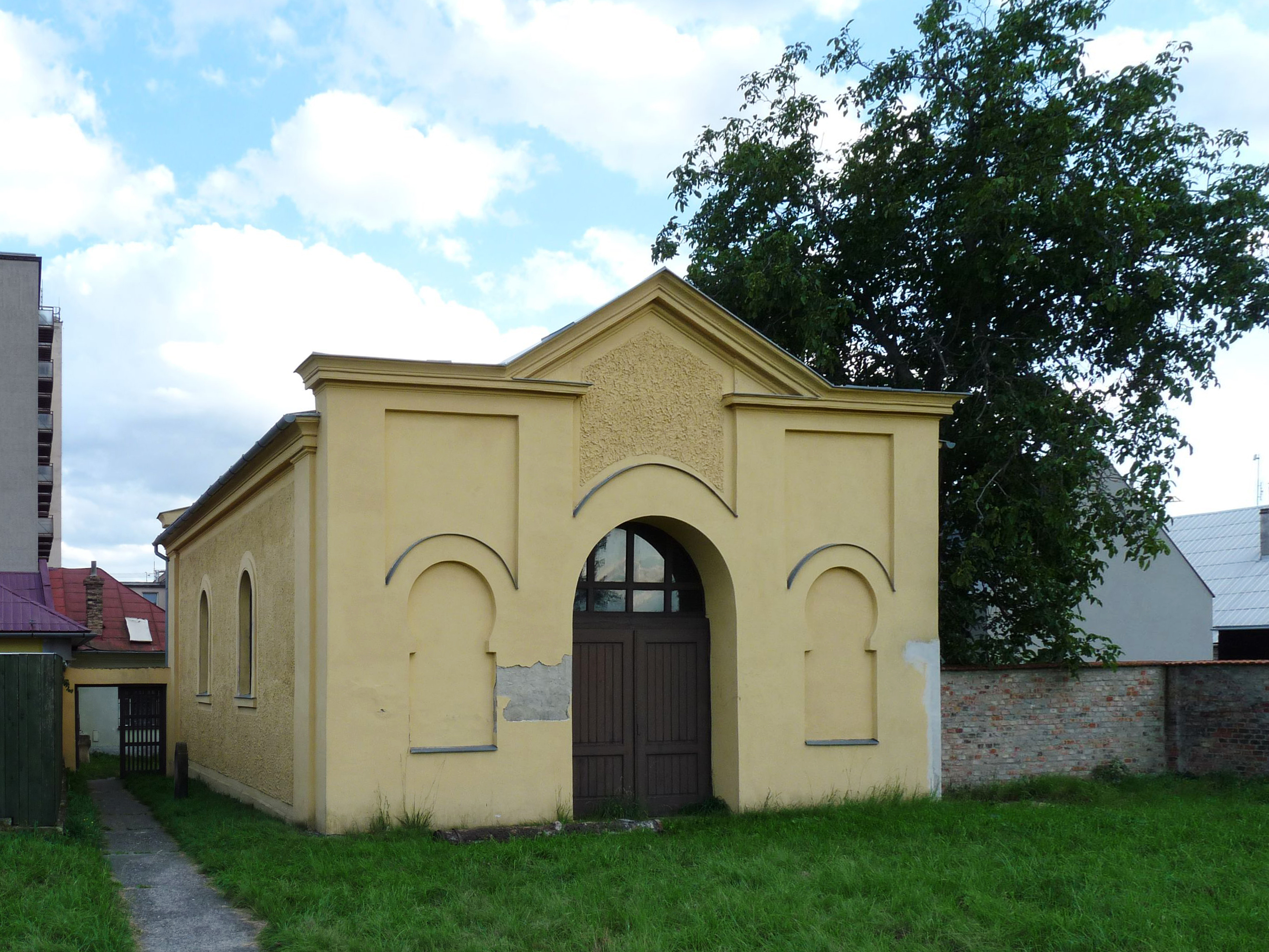 Jewish cemetery in the town of Holešov, Kroměříž District, Zlín Region, Czech Republic.